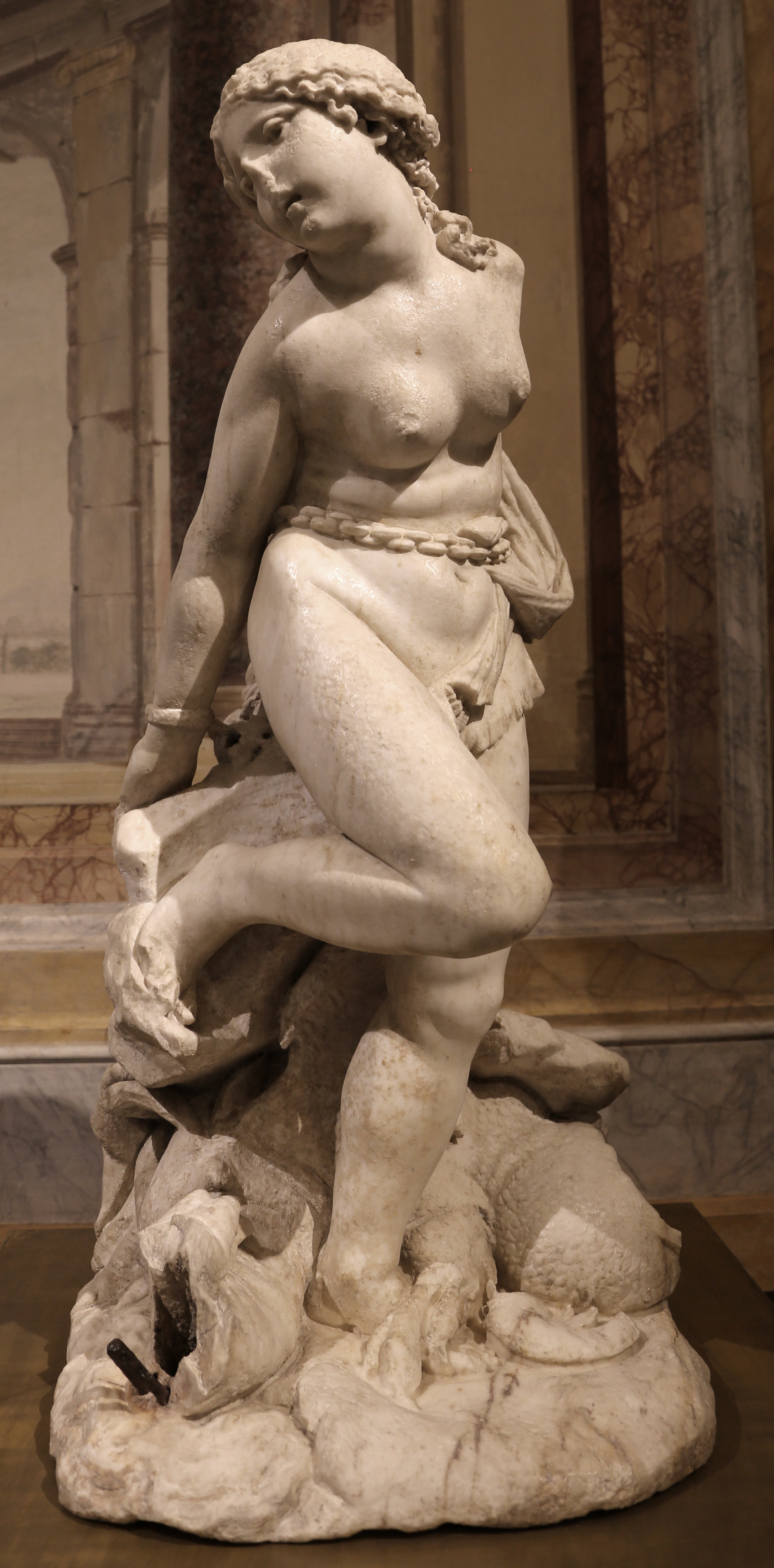 Mostra Gianlorenzo Bernini, Roma 2018